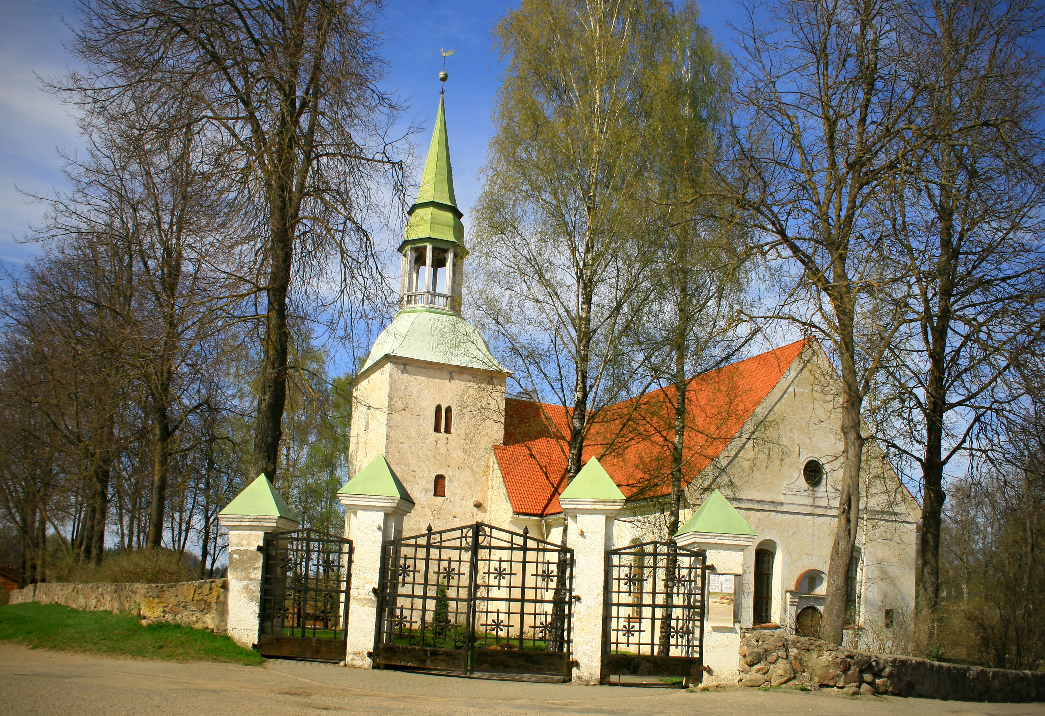 Rauna Evangelical Lutheran ChurchLatviešu: Raunas evaņģēliski luteriskā baznīca